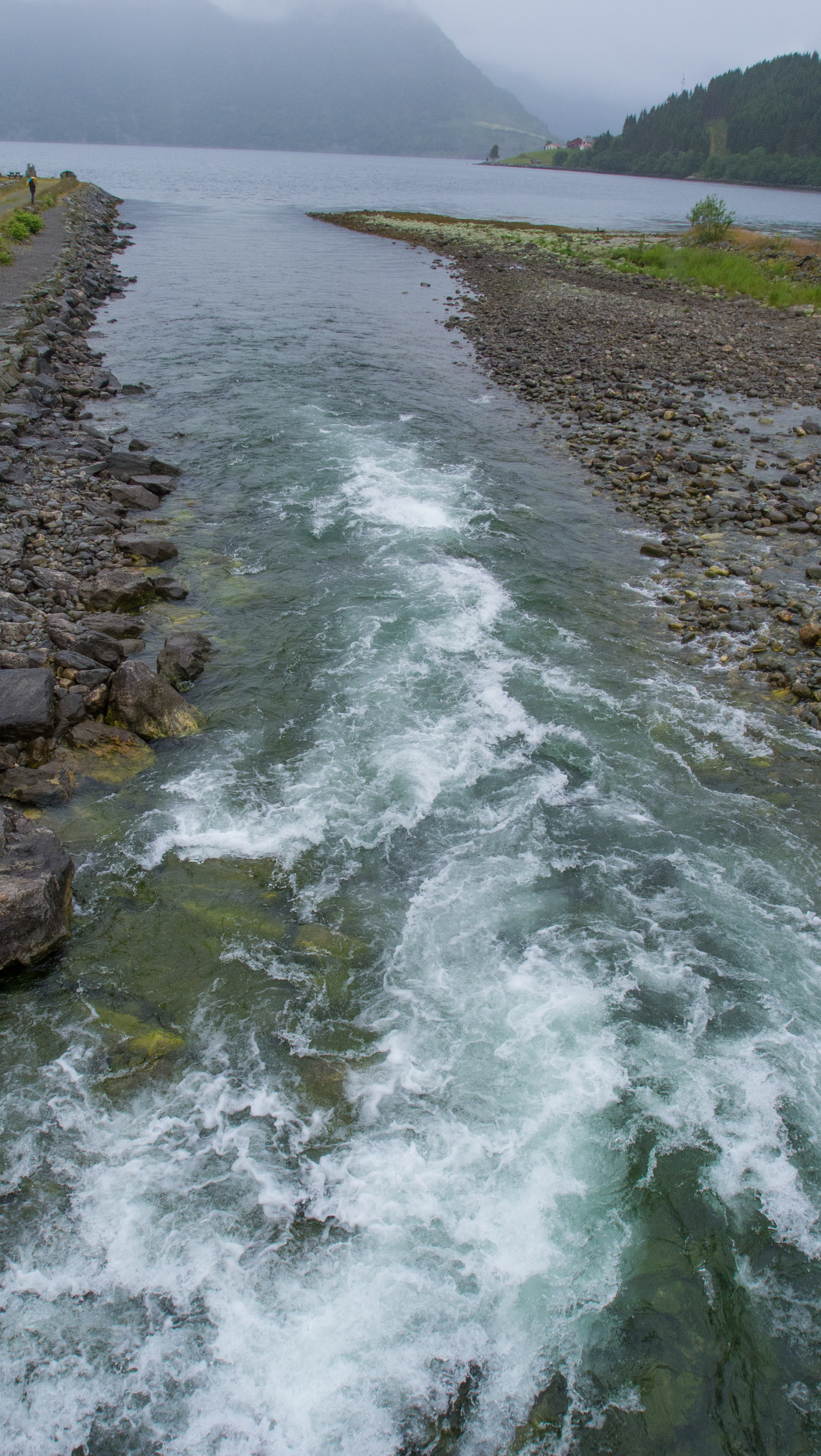 River full of Salmons and Sea Trout